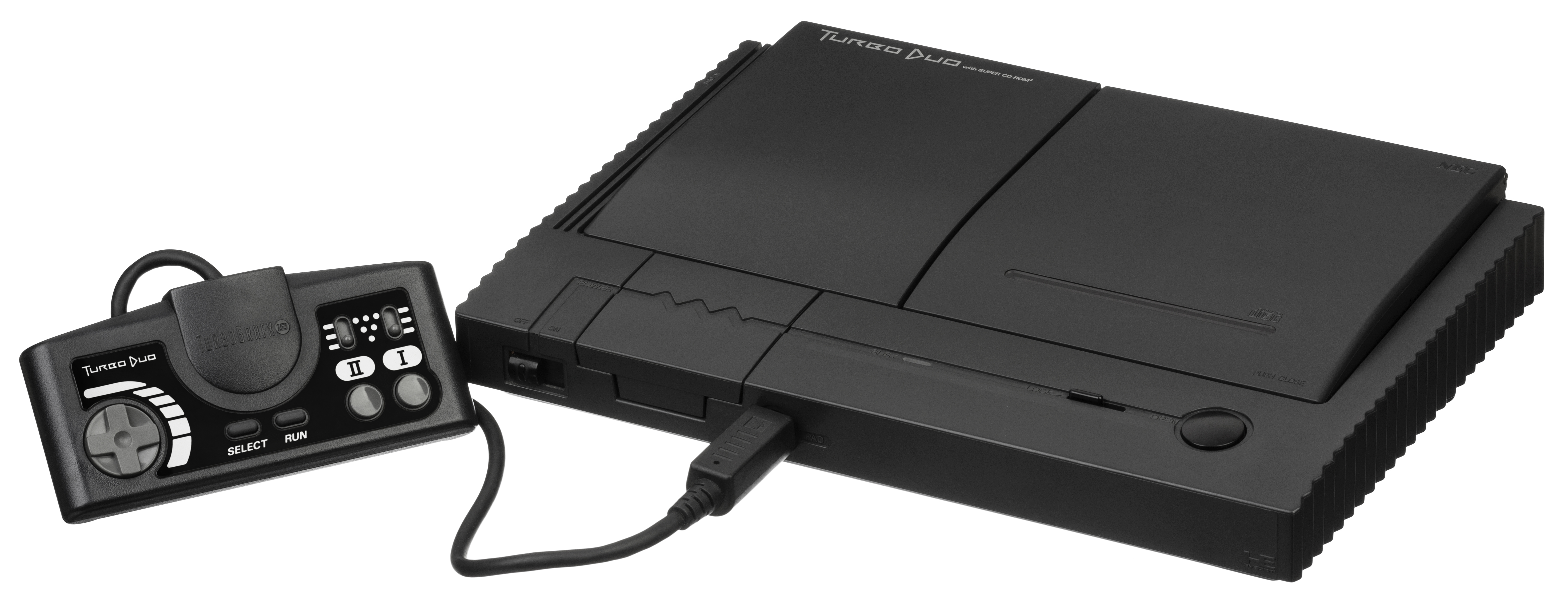 The TurboDuo, shown with controller. The TurboDuo was a gaming console by NEC that combined the TurboGrafx-16 system with the CD Drive into one unit. Released in late 1992 in North America, it would be the last console NEC would release to the Western market.